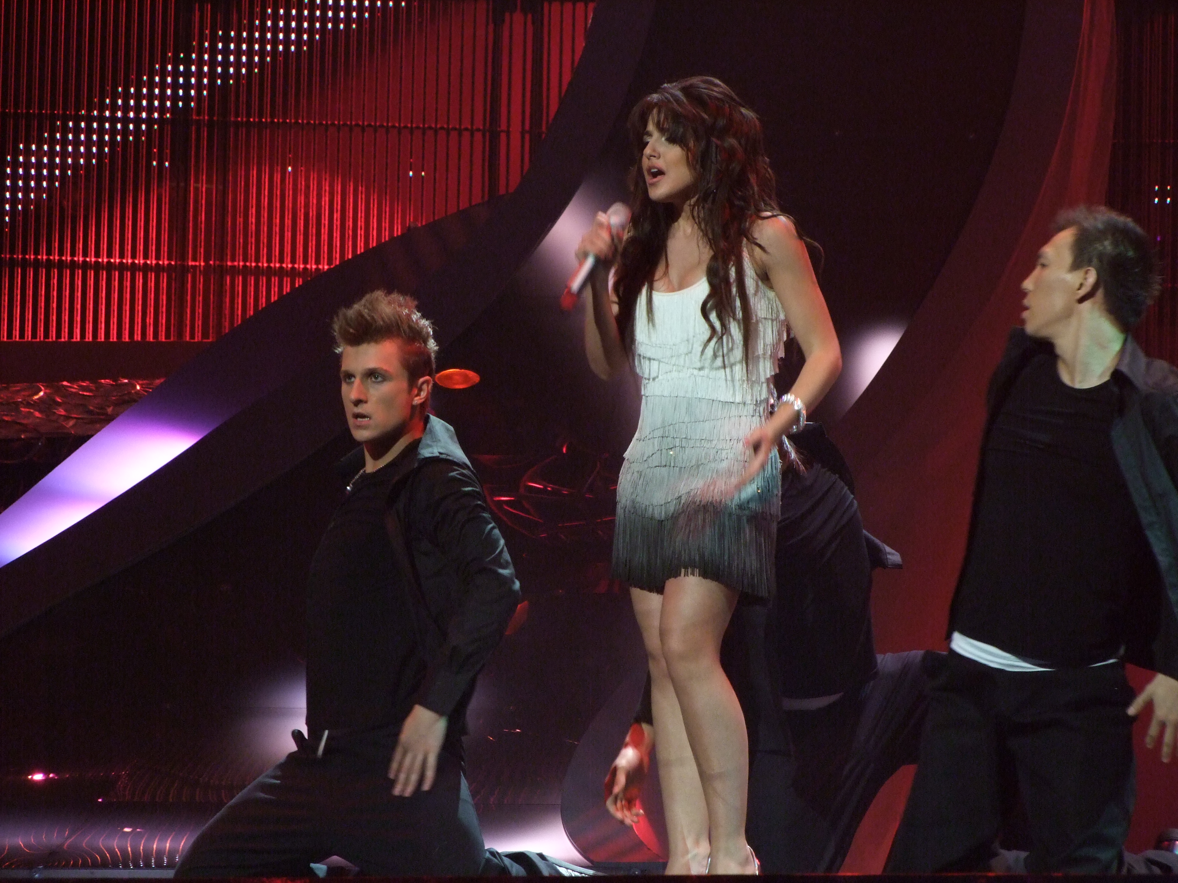 Eurovision Song Contest 2008, 1st semifinalArmenia: Sirusho, Qele qele